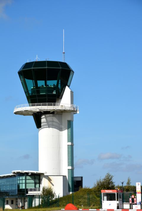 The tower control.